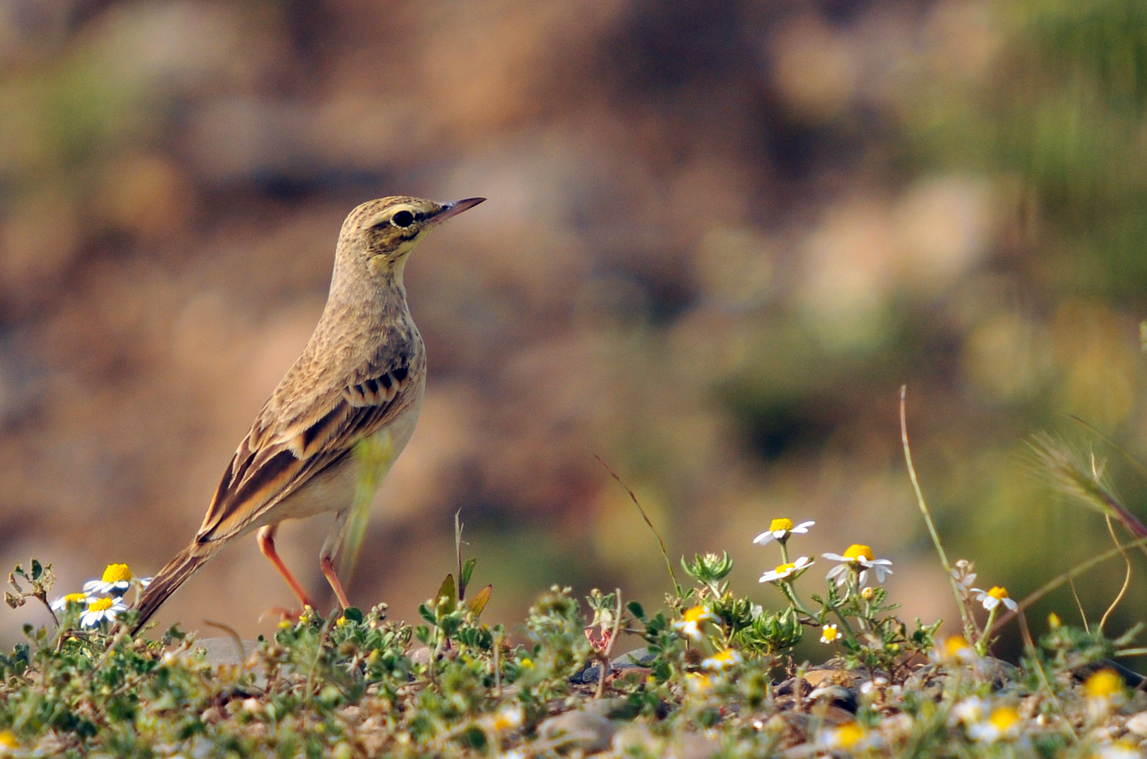 Tawny pipit Li Bismilê hatiye kişandin